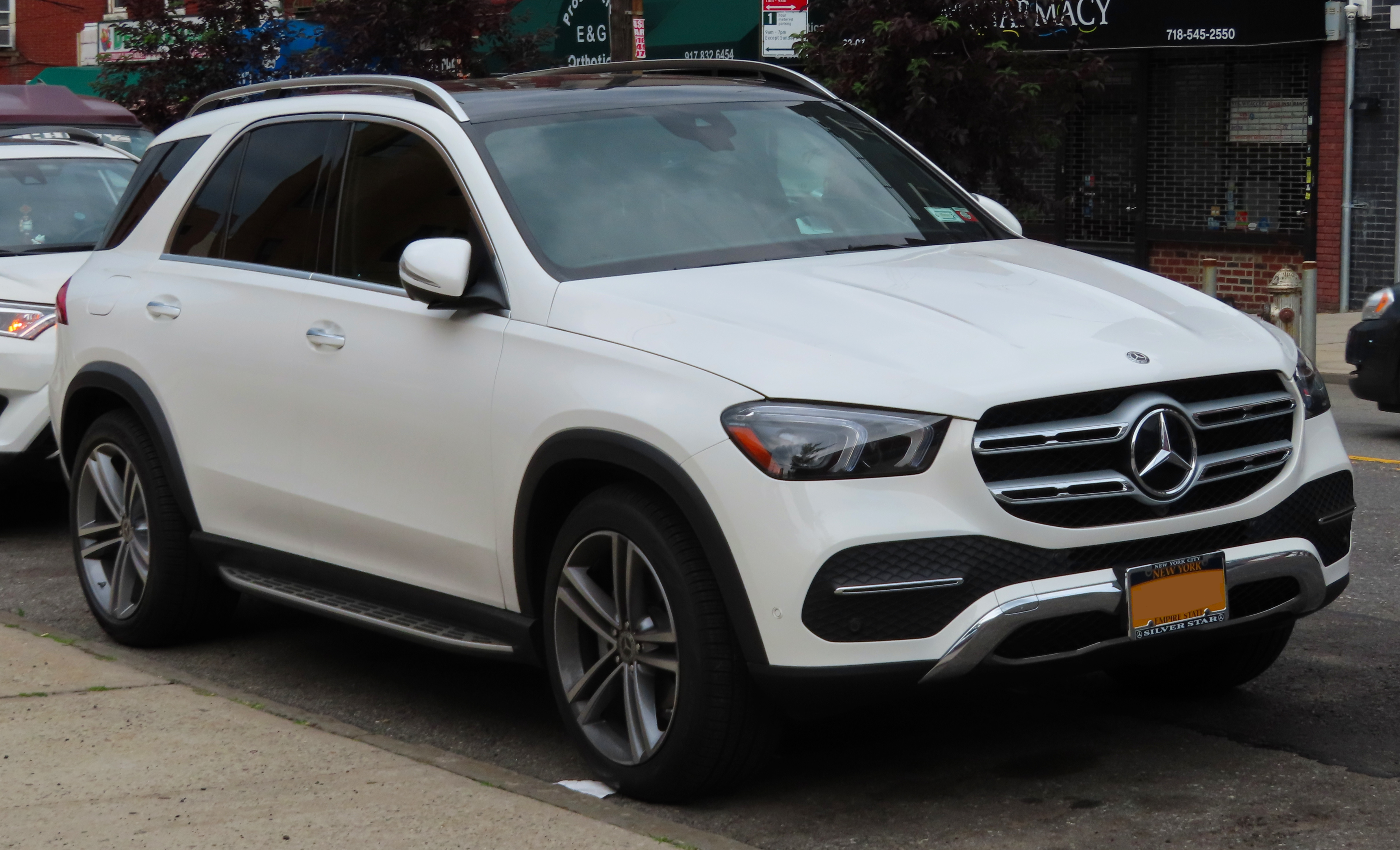 A 2020 Mercedes-Benz GLE 350 photographed in Astoria, Queens, New York, USA